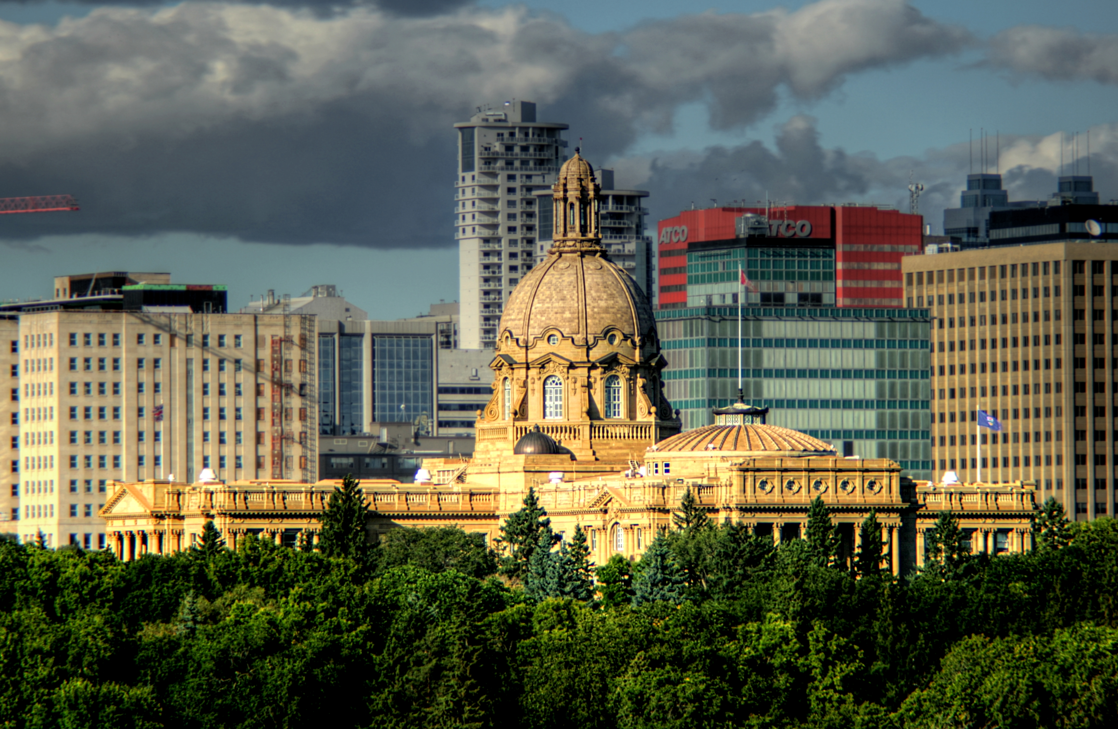 The Alberta Legislature Building in Edmonton, Alberta, Canada.